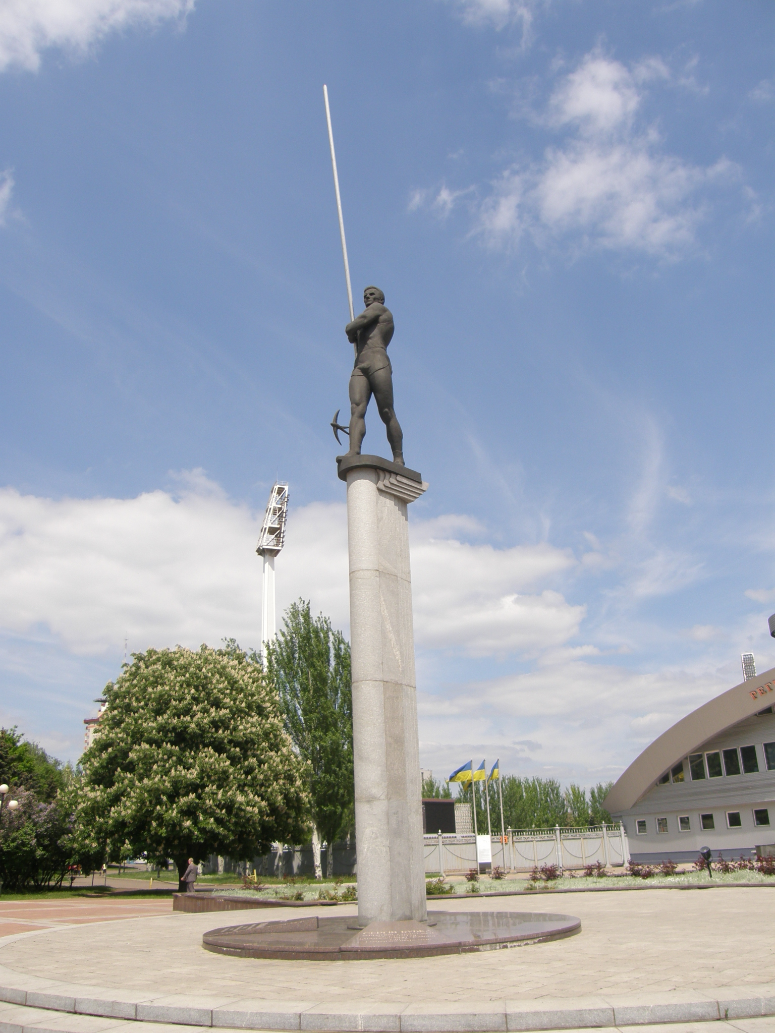 RSC Olimpiyskyi